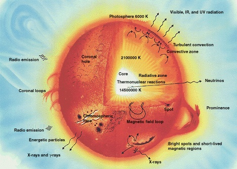 This diagram shows a cross-section of a solar-type star. The image size is 468 × 334 pixels. It was converted from GIF format to high-quality JPG by the contributor.